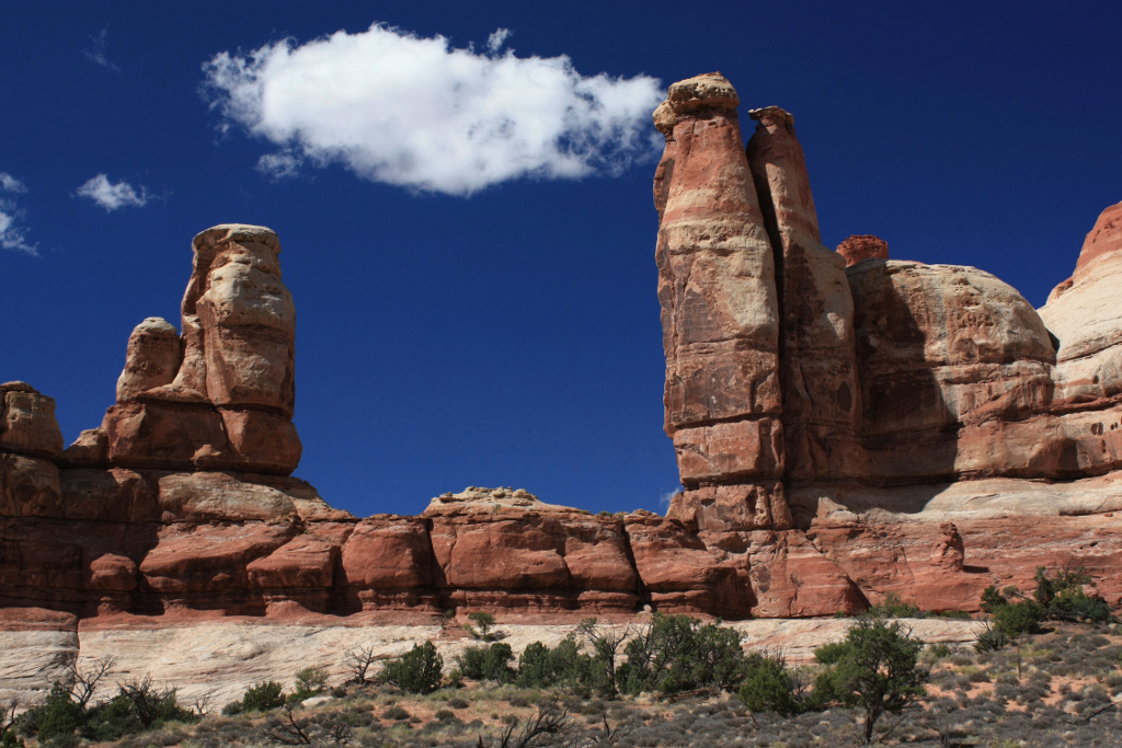 Canyonlands National Park, Chesler Park, Needles District, Utah, USA